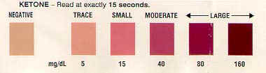 Color chart for interpretation of urine ketone values for diabetic dogs